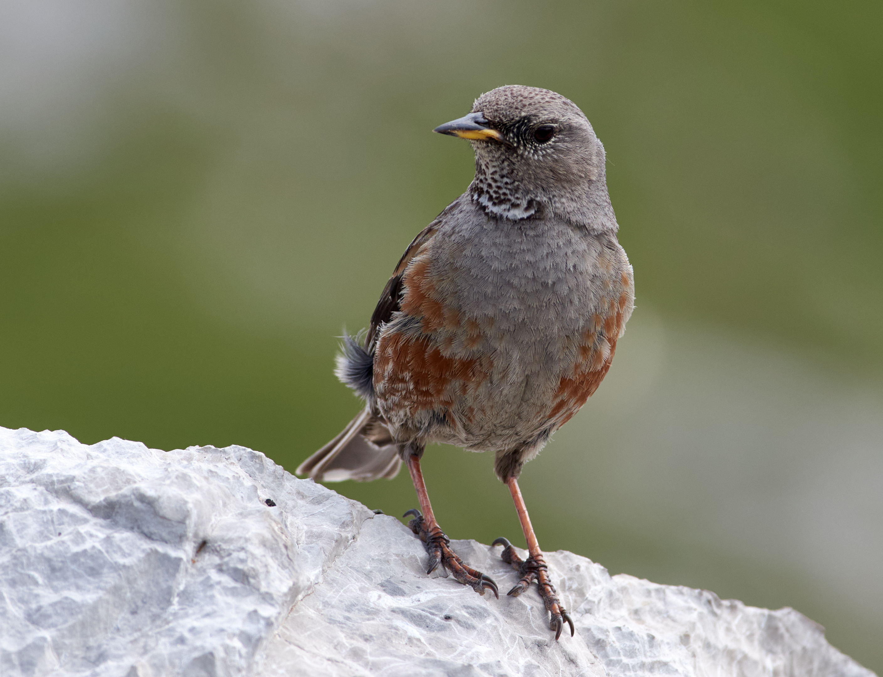 Alpine Accentor (Prunella collaris), mountain Nebelhorn, Germany